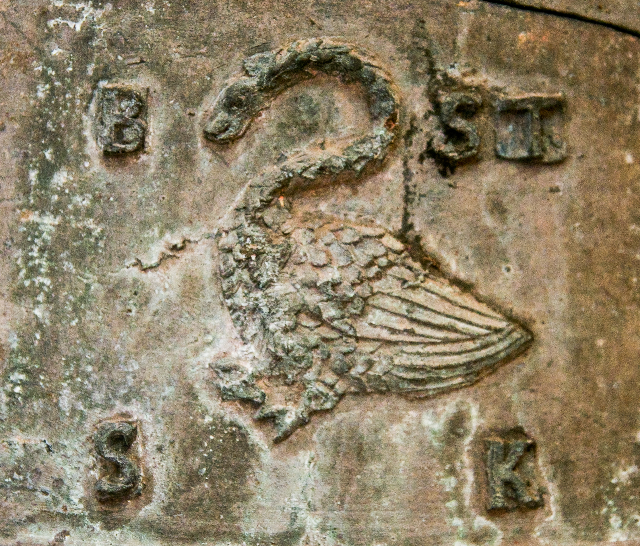 Emblem of Šemetos family, 17th century